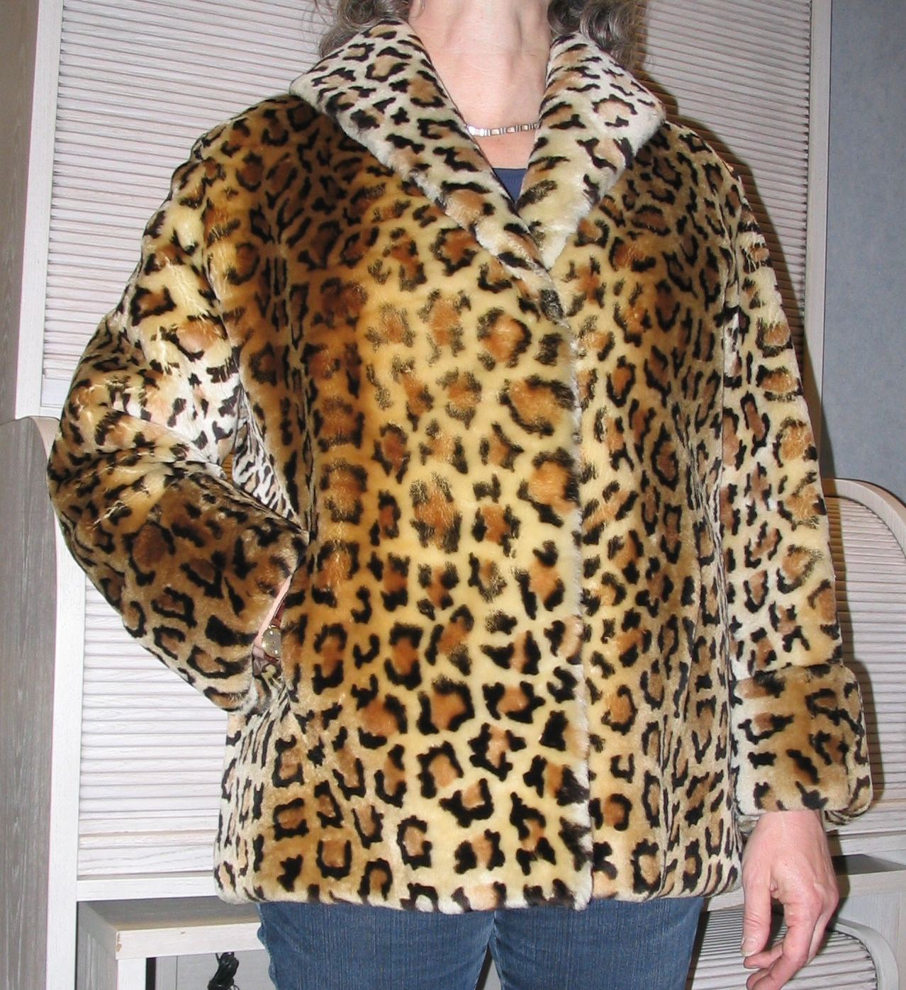 lamb jacket with leopard print, Germany